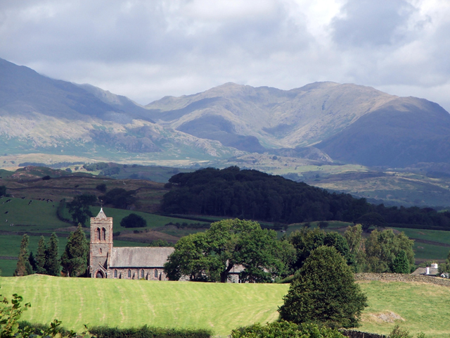 St Lukes Church at Lowick, Cumbria Taken from the A5092, standing at grid ref SD 290 854. View shows the valley of the River Crake up to Blawith and Coniston beyond.